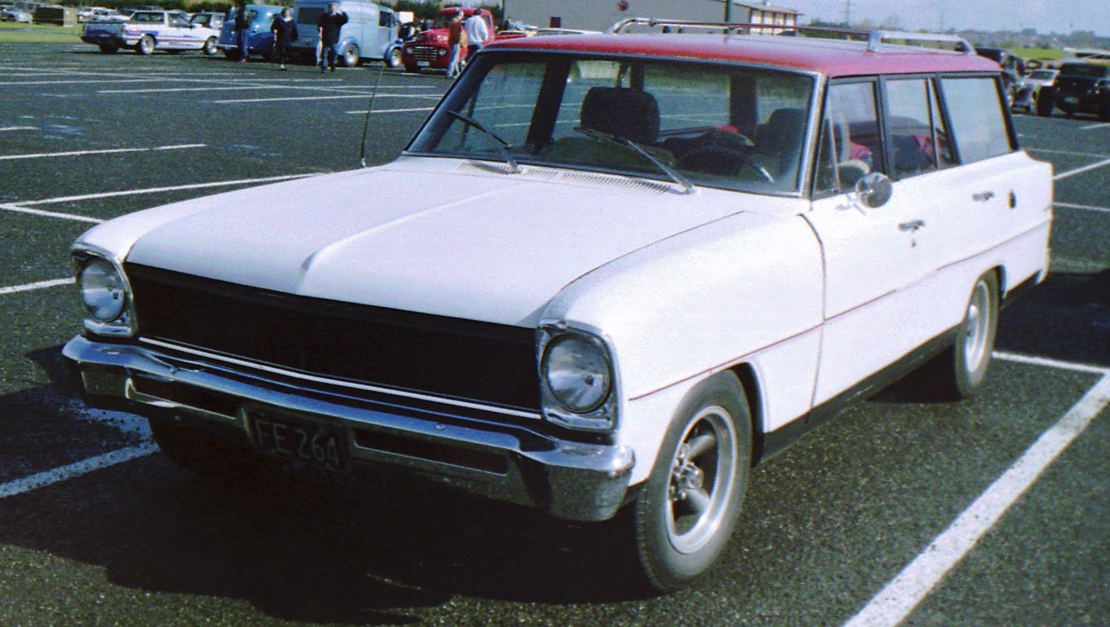 1966 Chevrolet Chevy II Nova (?) station wagon in New Zealand